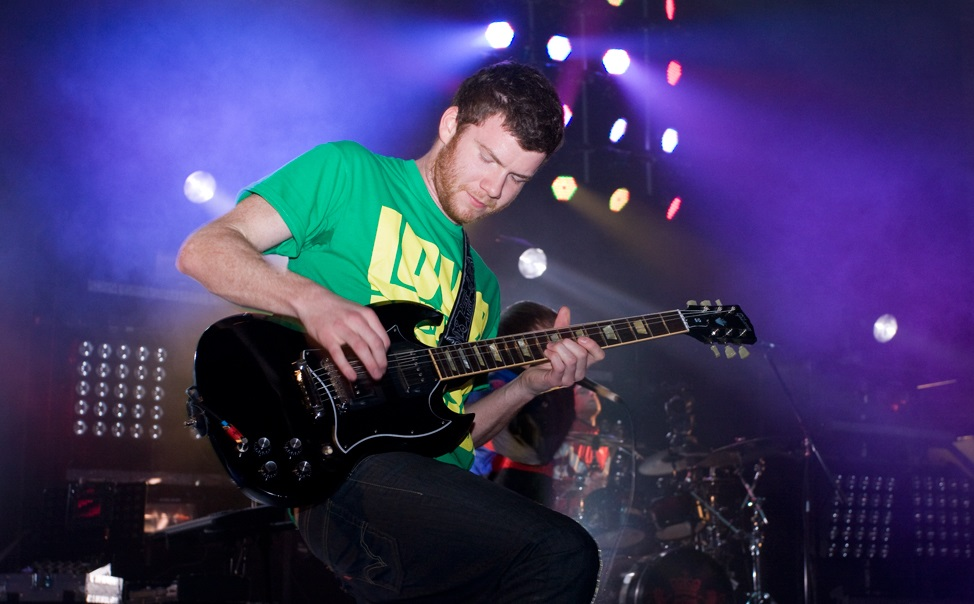 Enter Shikari guitarist Liam "Rory C" Clewlow performing in 2010